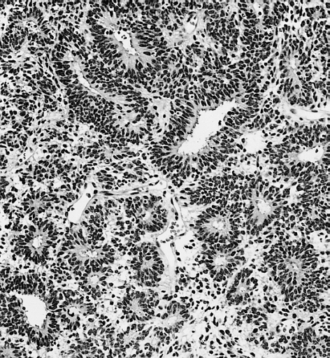 CNS: EPENDYMOBLASTOMA This rare tumor is composed of fields of undifferentiated cells punctuated by multiple rosettes formed of mitotically active cells.